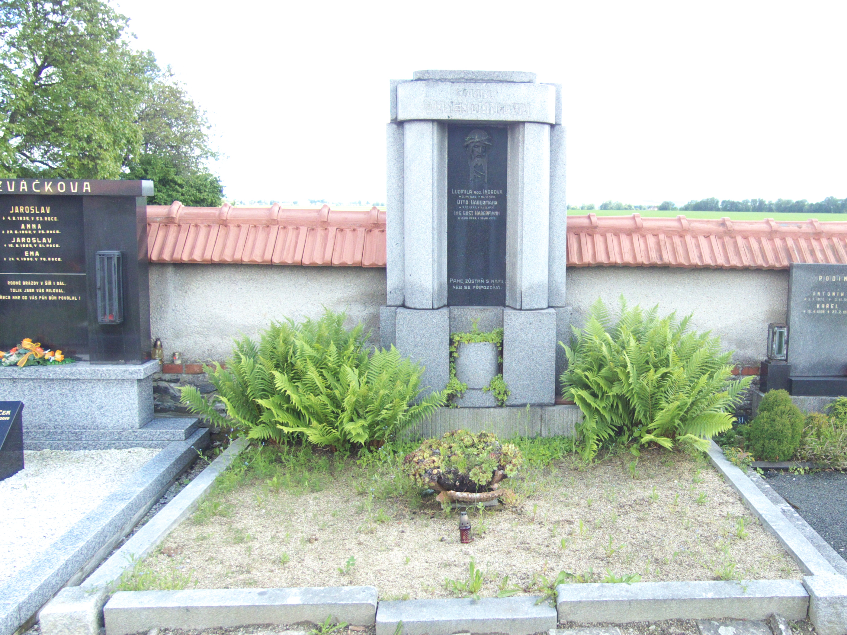 Haberman's grave in Chromeč